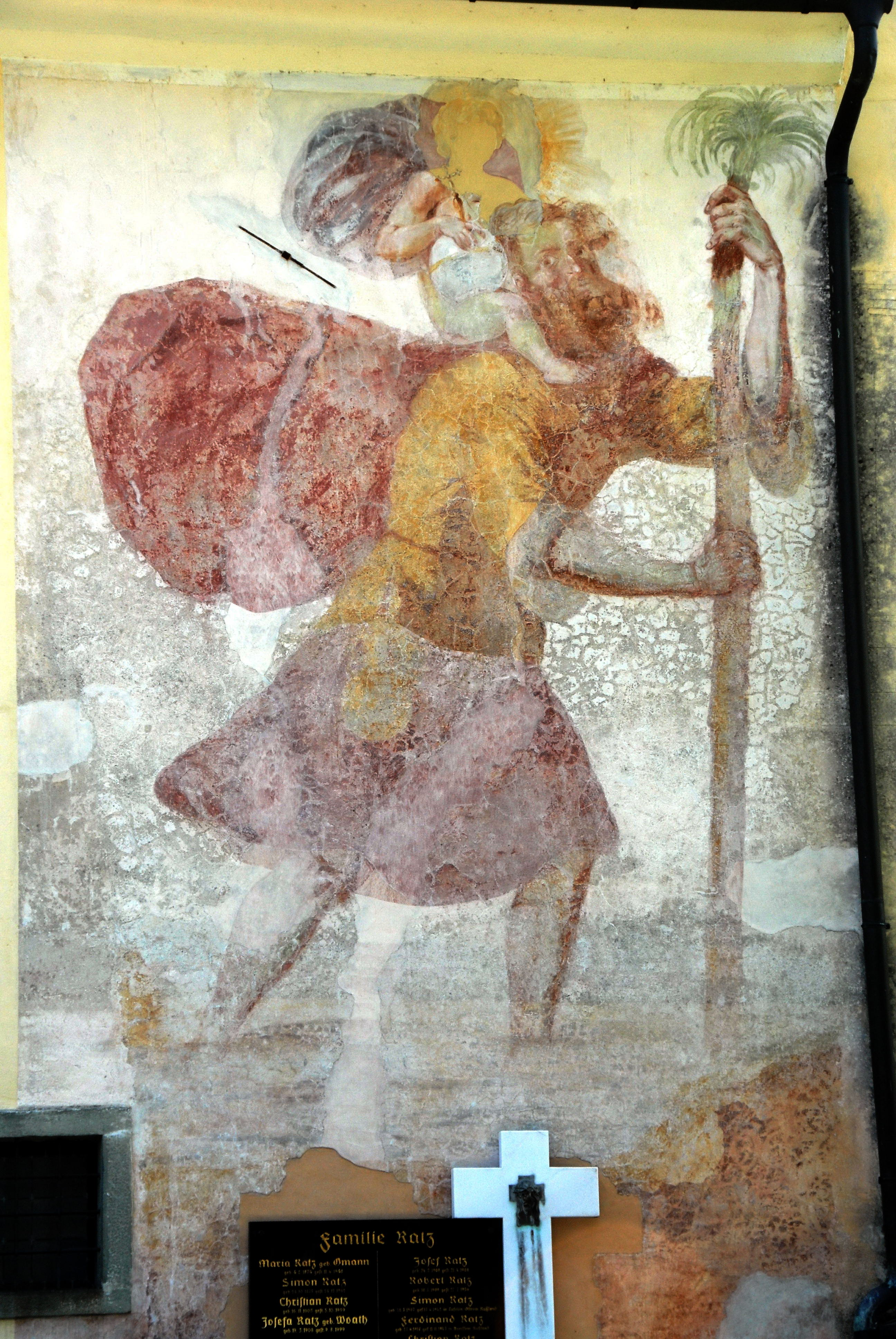 Fresco of Saint Christophorus on the west wall of the parish church in Maria Rain, municipality Maria Rain, district Klagenfurt Land, Carinthia / Austria / EU